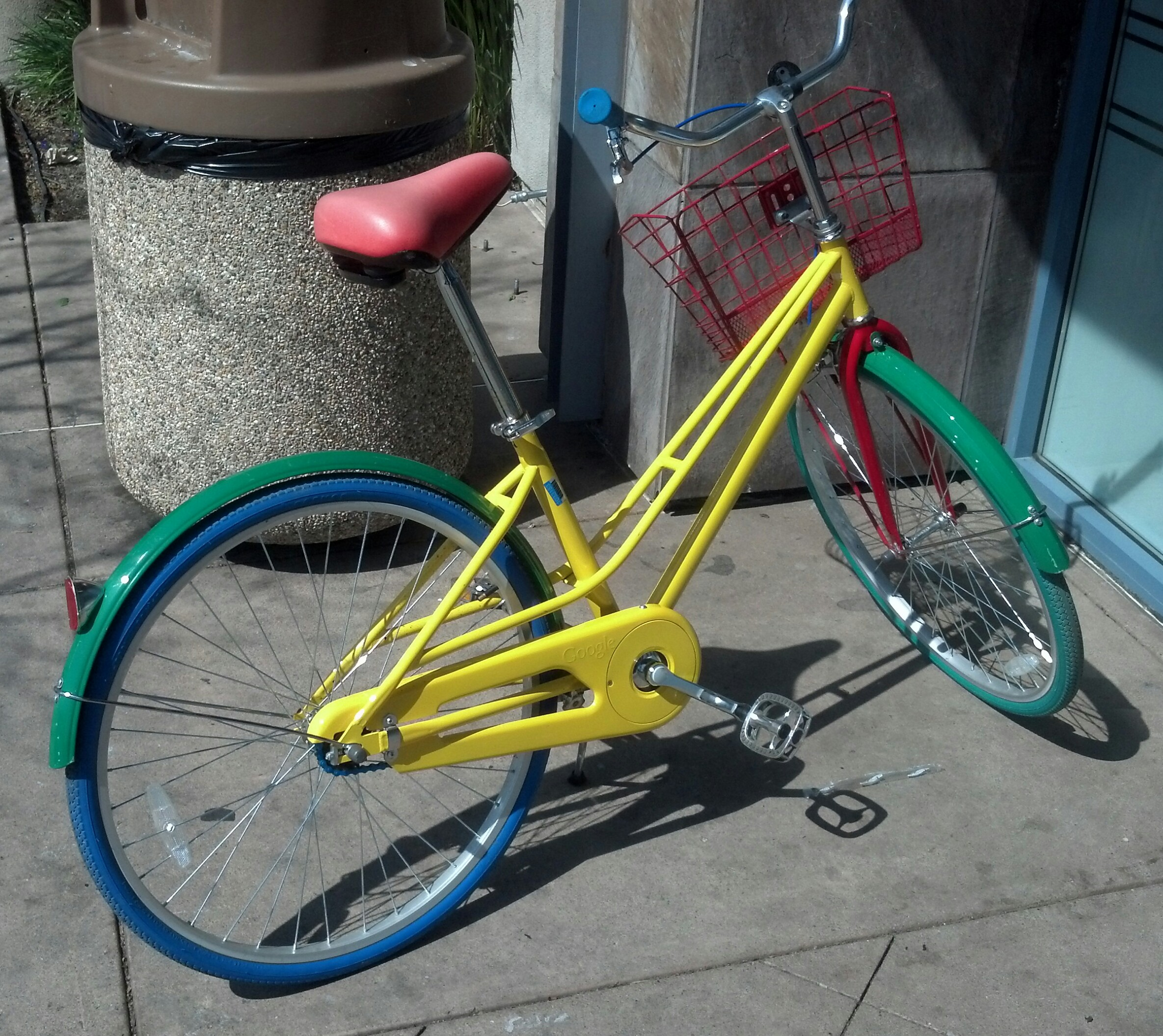 A Google bicycle, freely shared among Google employees, in Mountain View, California. Photo by Jim Heaphy.